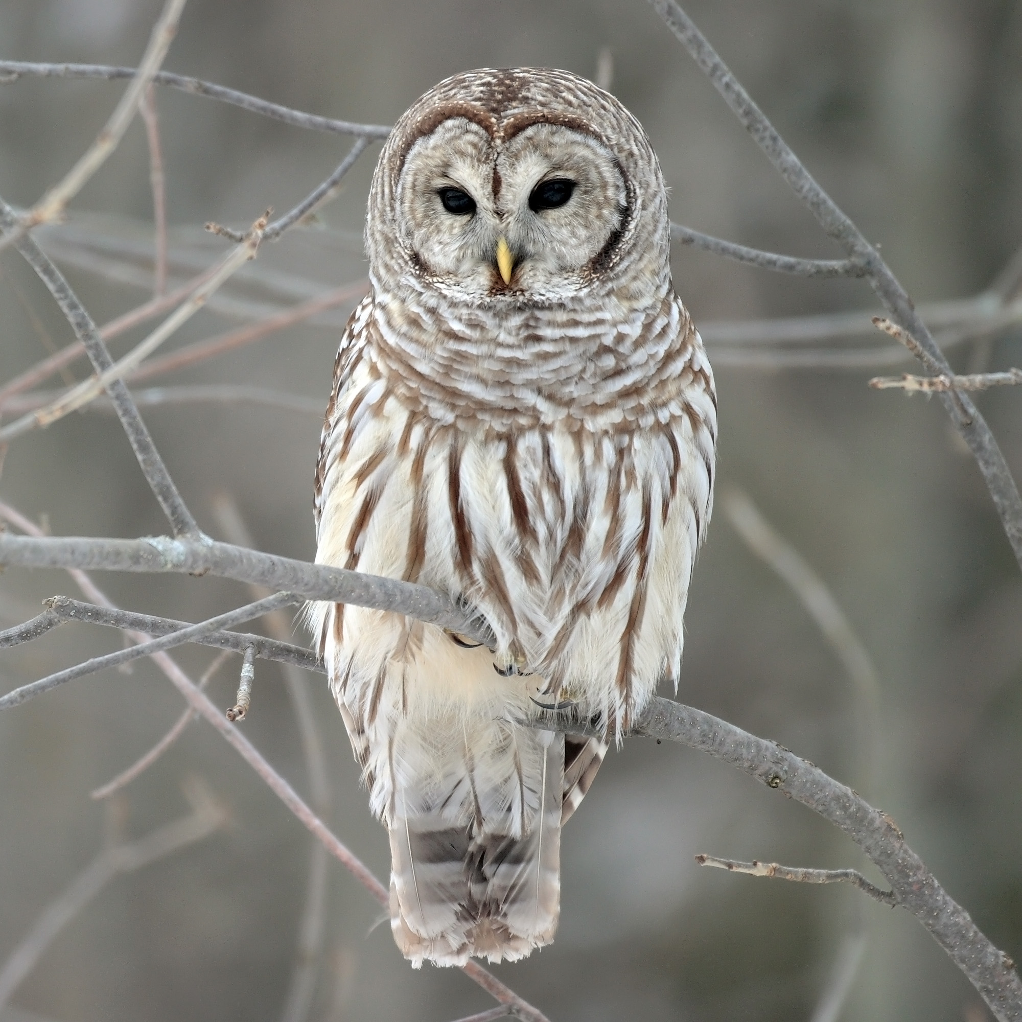 Barred Owl in Whitby, Ontario (Canada)